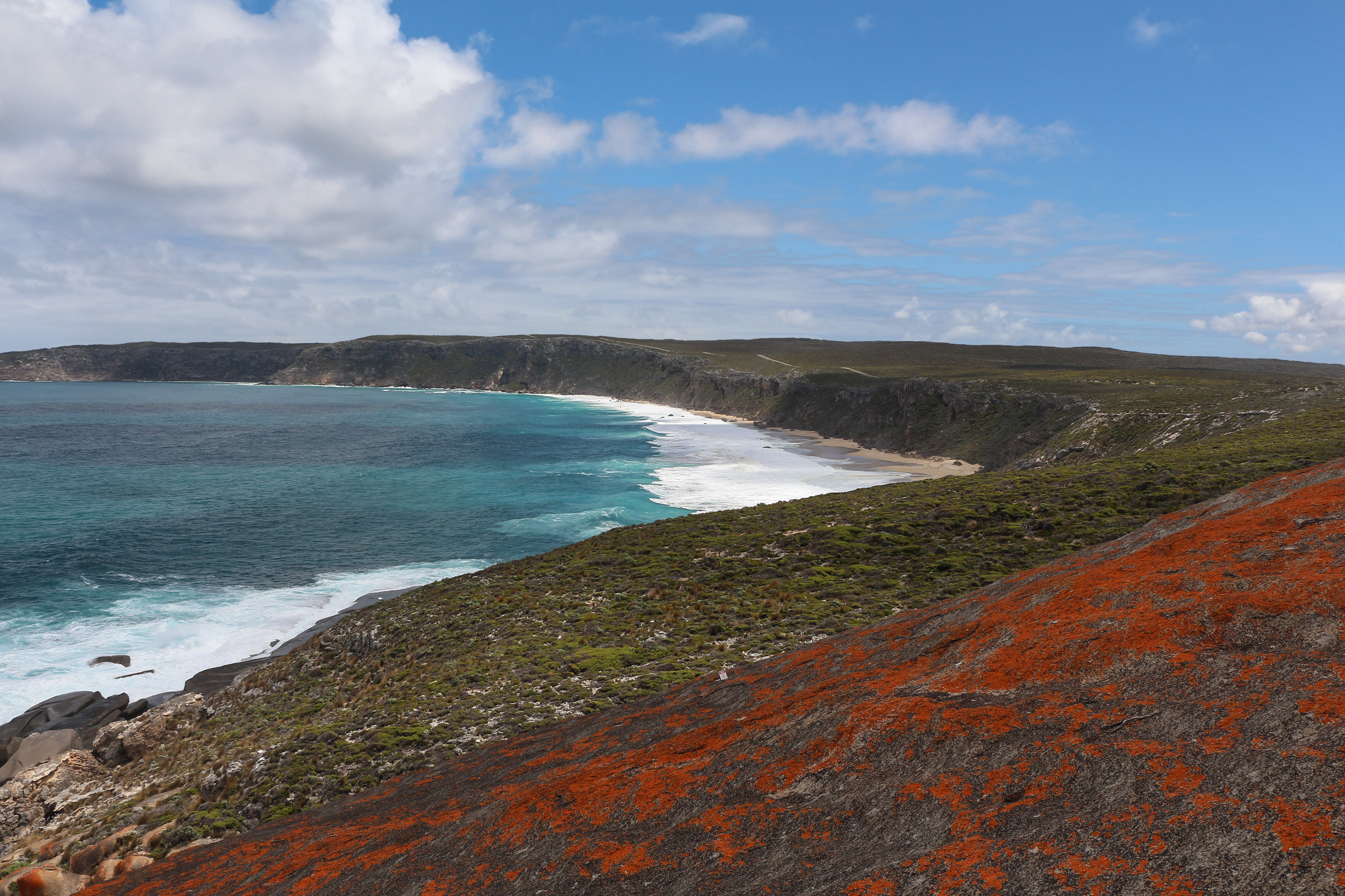 View from the Remarkable Rocks in the Flinders Chase National Park, Kangaroo Island, Australia